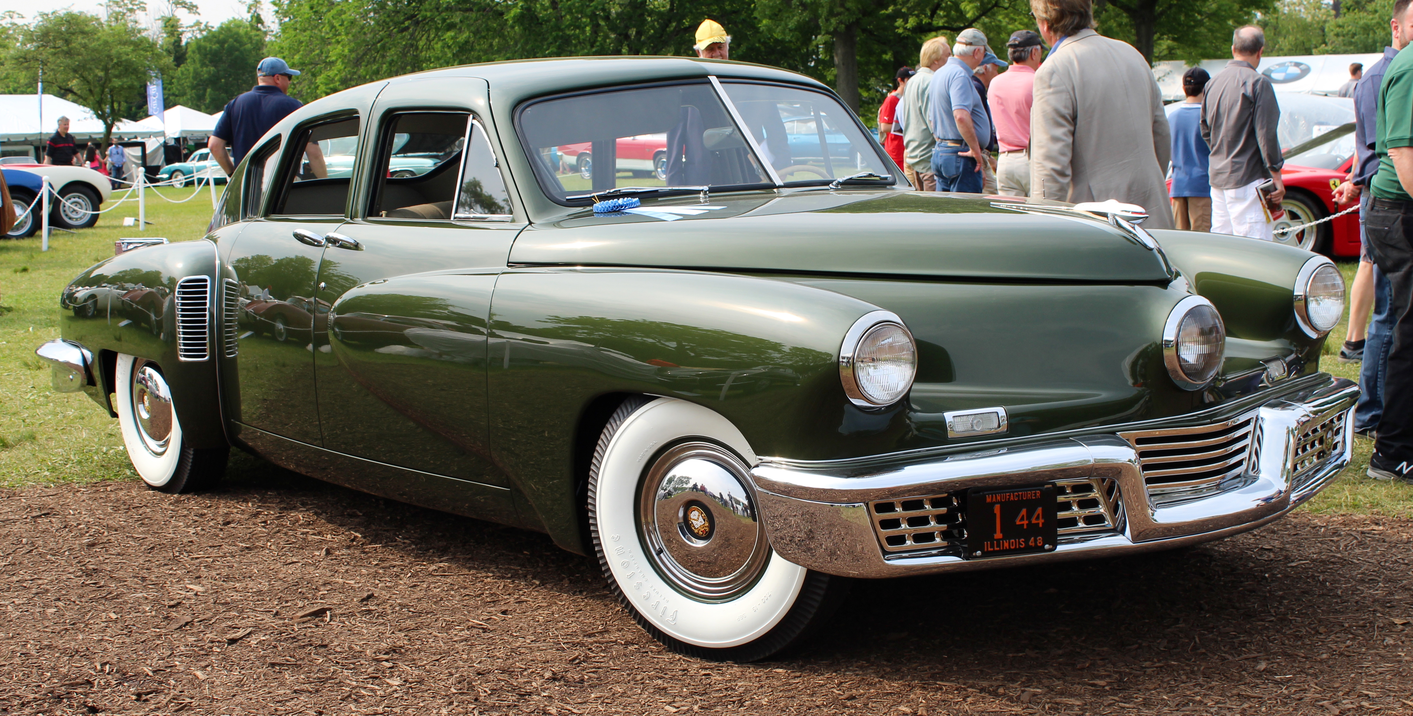 A 1948 Tucker Torpedo photographed during the 2019 Greenwich Concours d'Elégance, Connecticut, USA